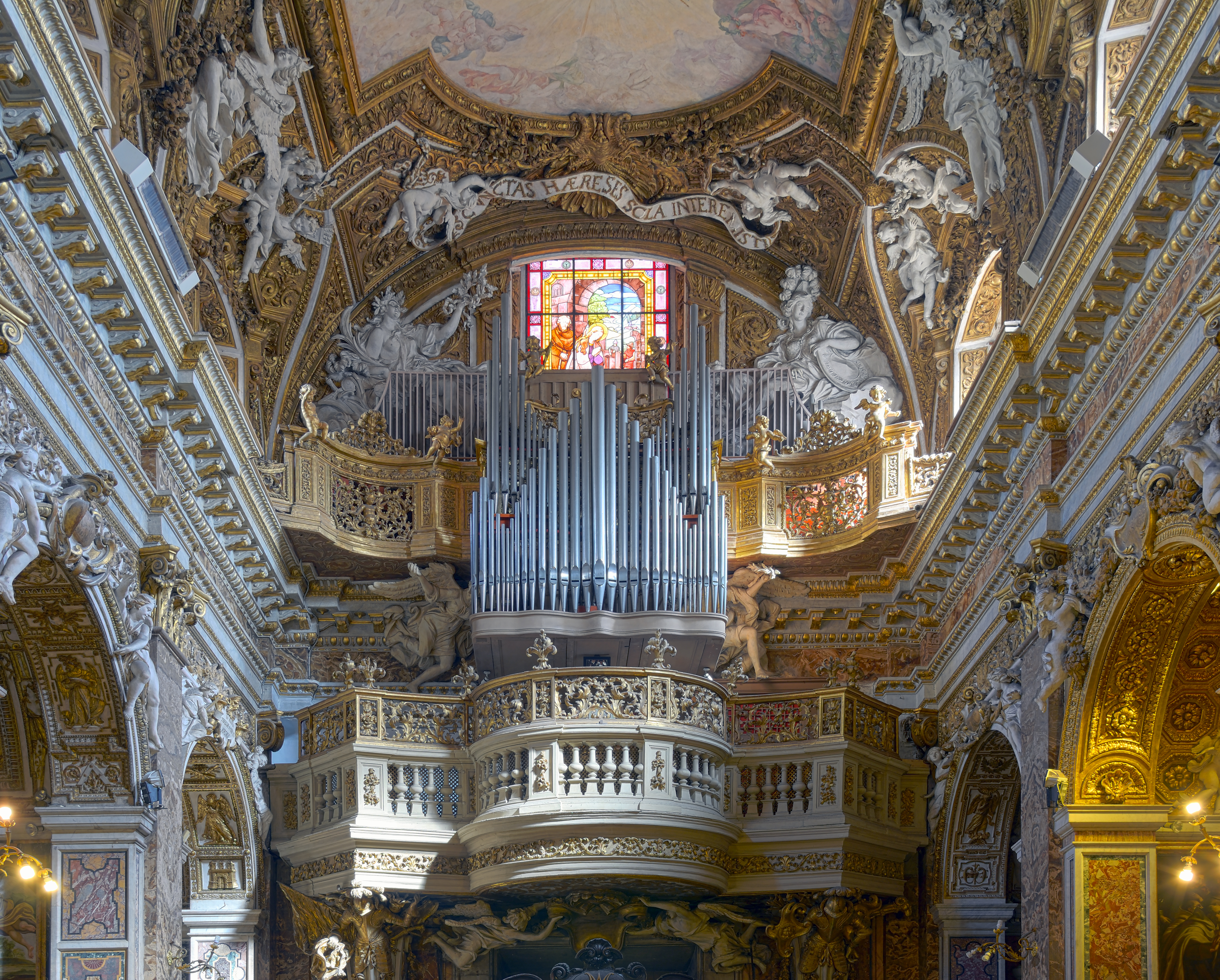 Pipe organ in Santa Maria della Vittoria in Rome HDR